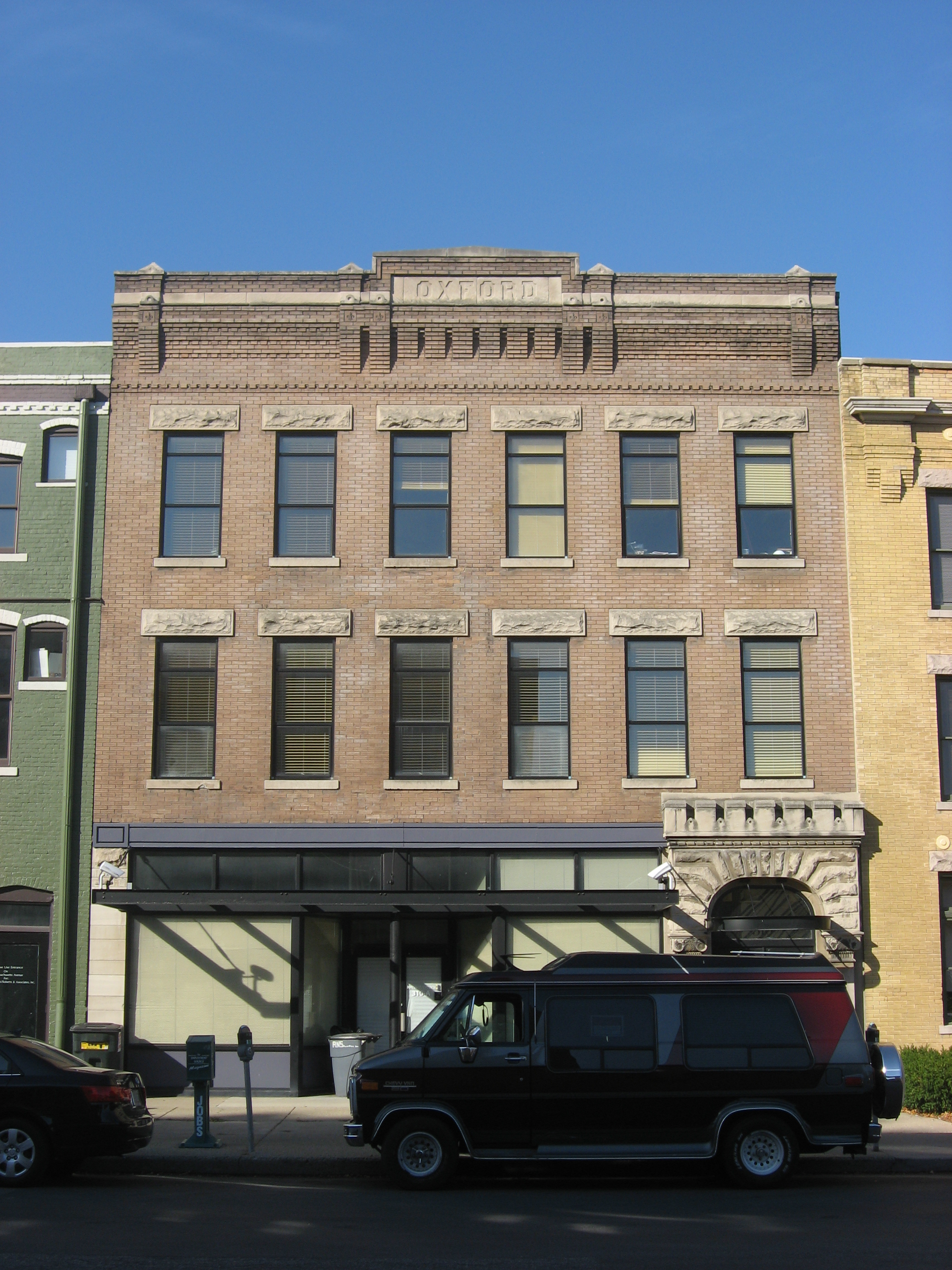 Front of The Oxford, located at 316 E. Vermont Street in Indianapolis, Indiana, United States. Built in 1902, it is listed on the National Register of Historic Places.